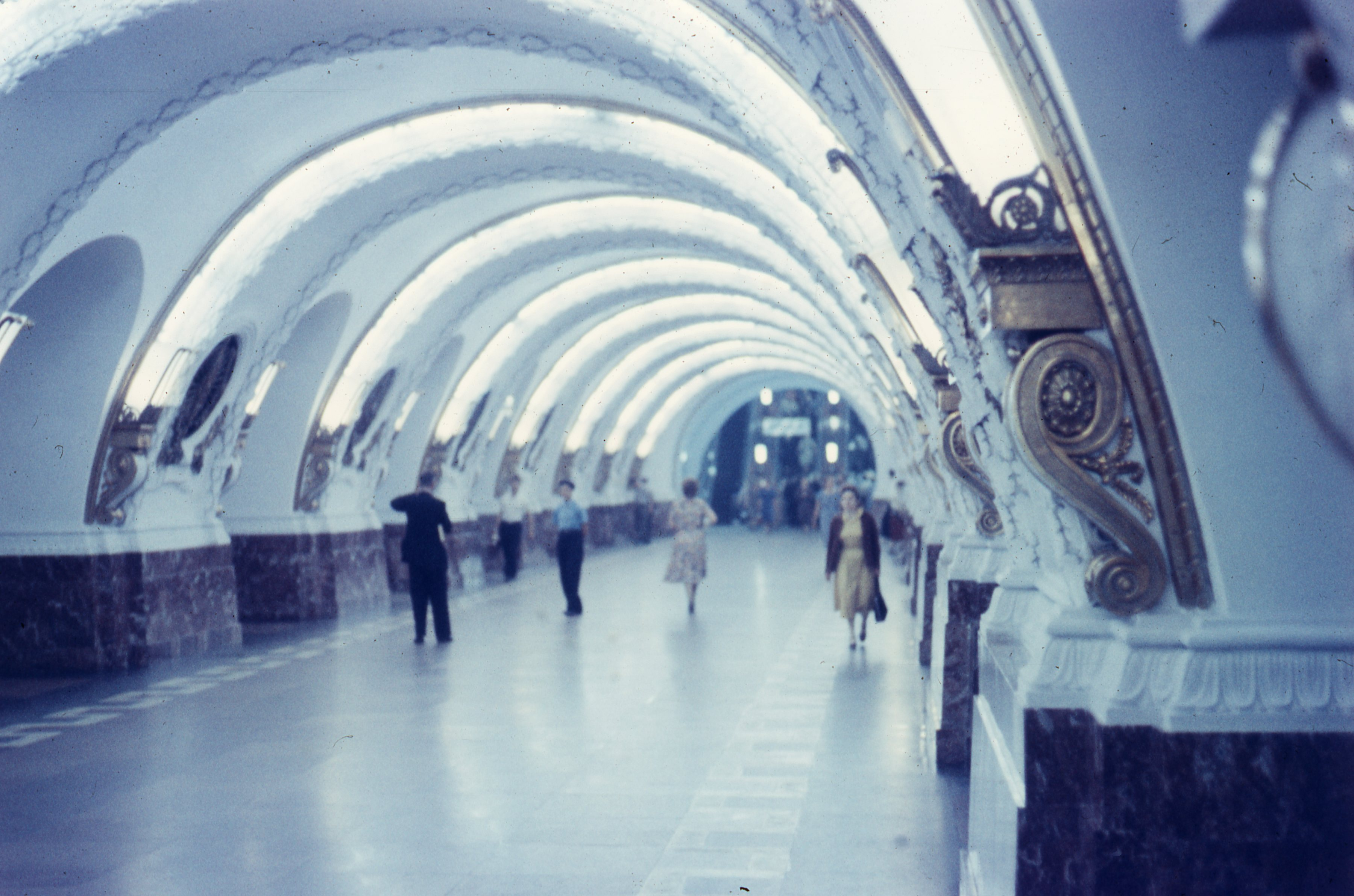 These images were taken by Thomas T. Hammond during his travels to the Soviet Union. This a metro station in Saint Petersburg.